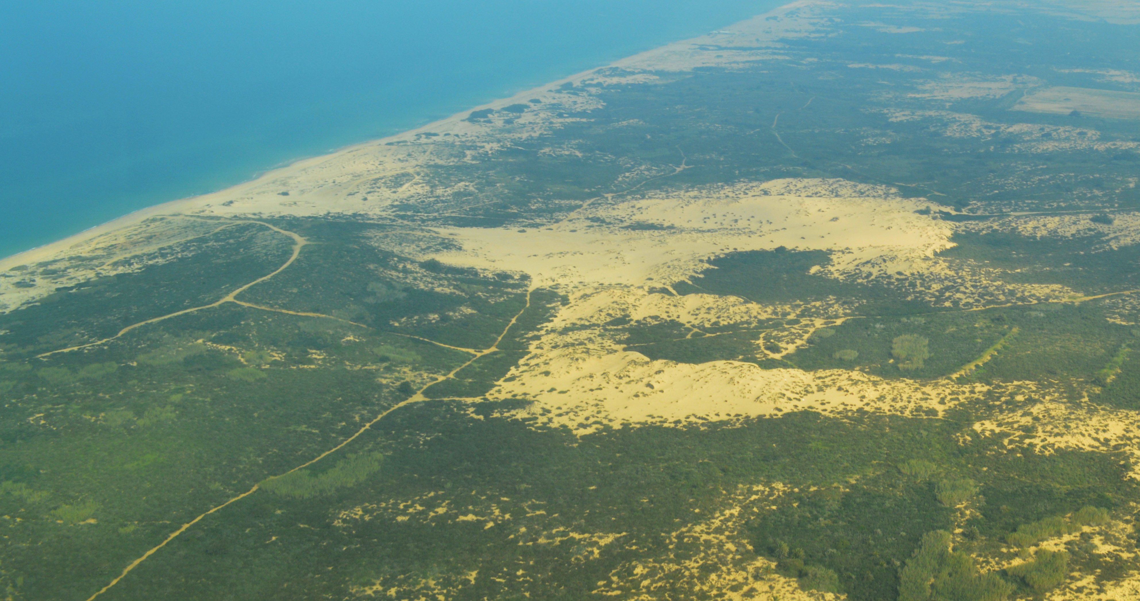 Holot Nitzanim Aerial View